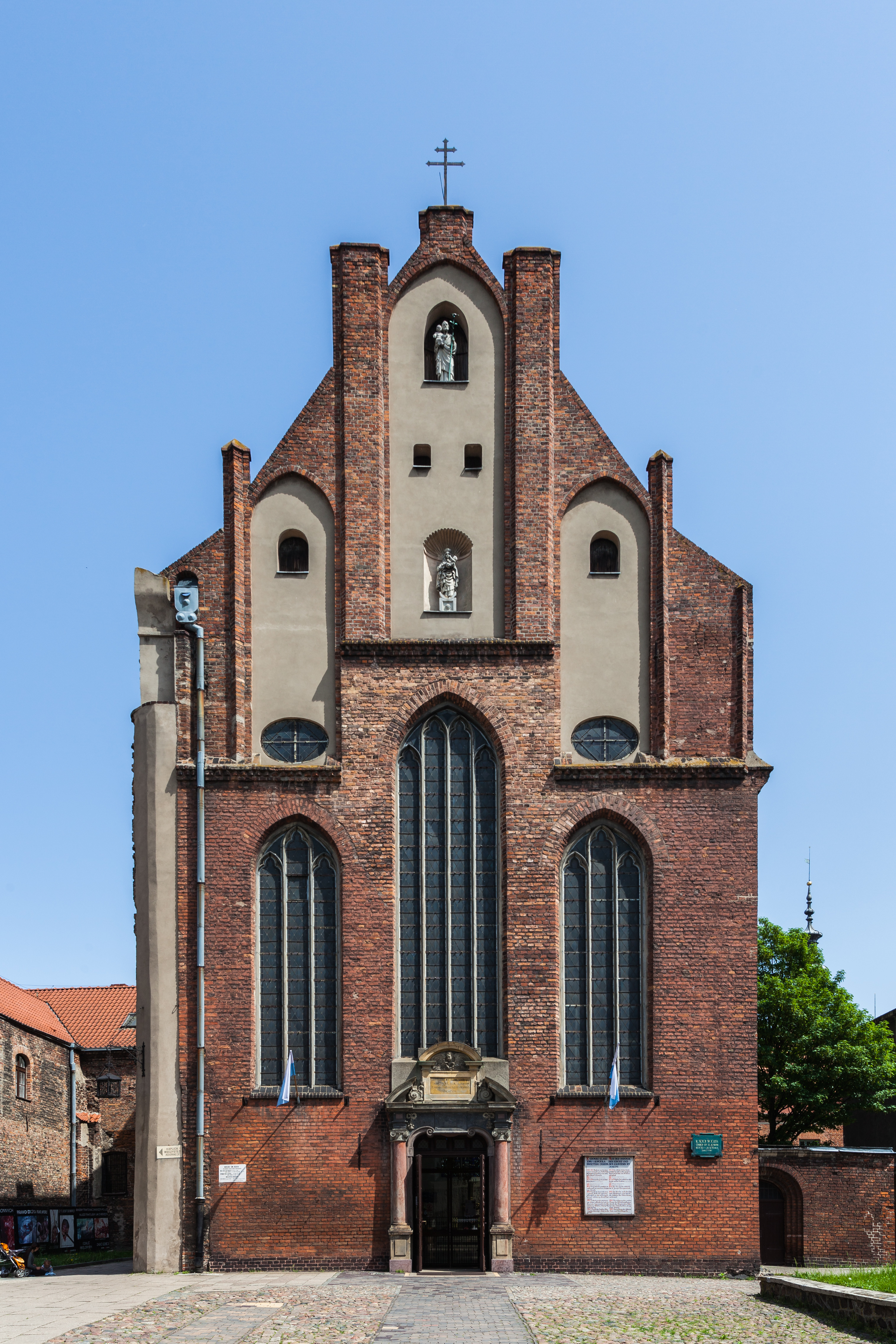 St Joseph church, Gdansk, Poland